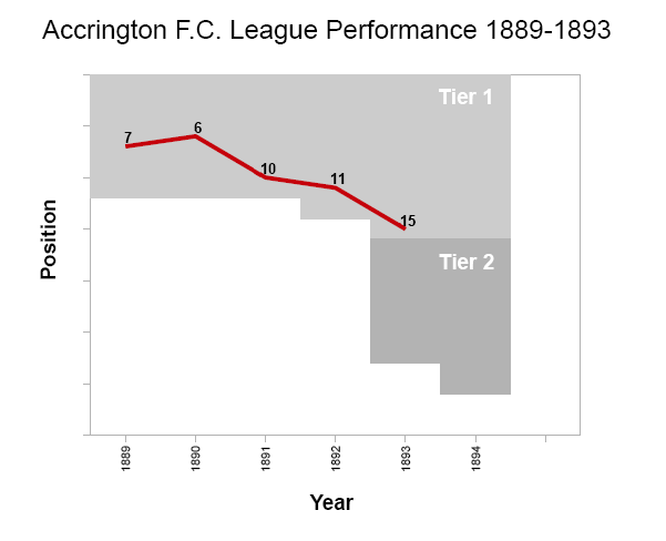 Graph showing Accrington FC's performance from the first season of the English Football League in 1888-1889 to 1892-1893 when they resigned from the League after coming fifteenth out of sixteen clubs and then losing the test match against Sheffield United. Interestingly the team they beat in the league were Newton Heath who were later re-named Manchester United.